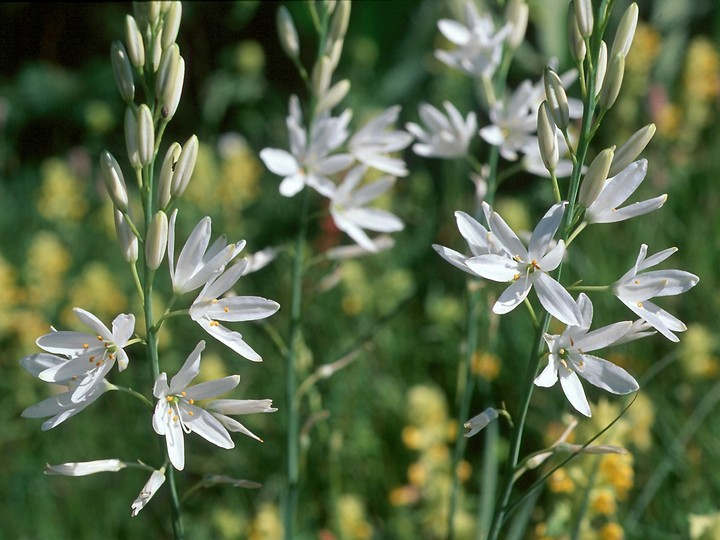 Anthericum liliago